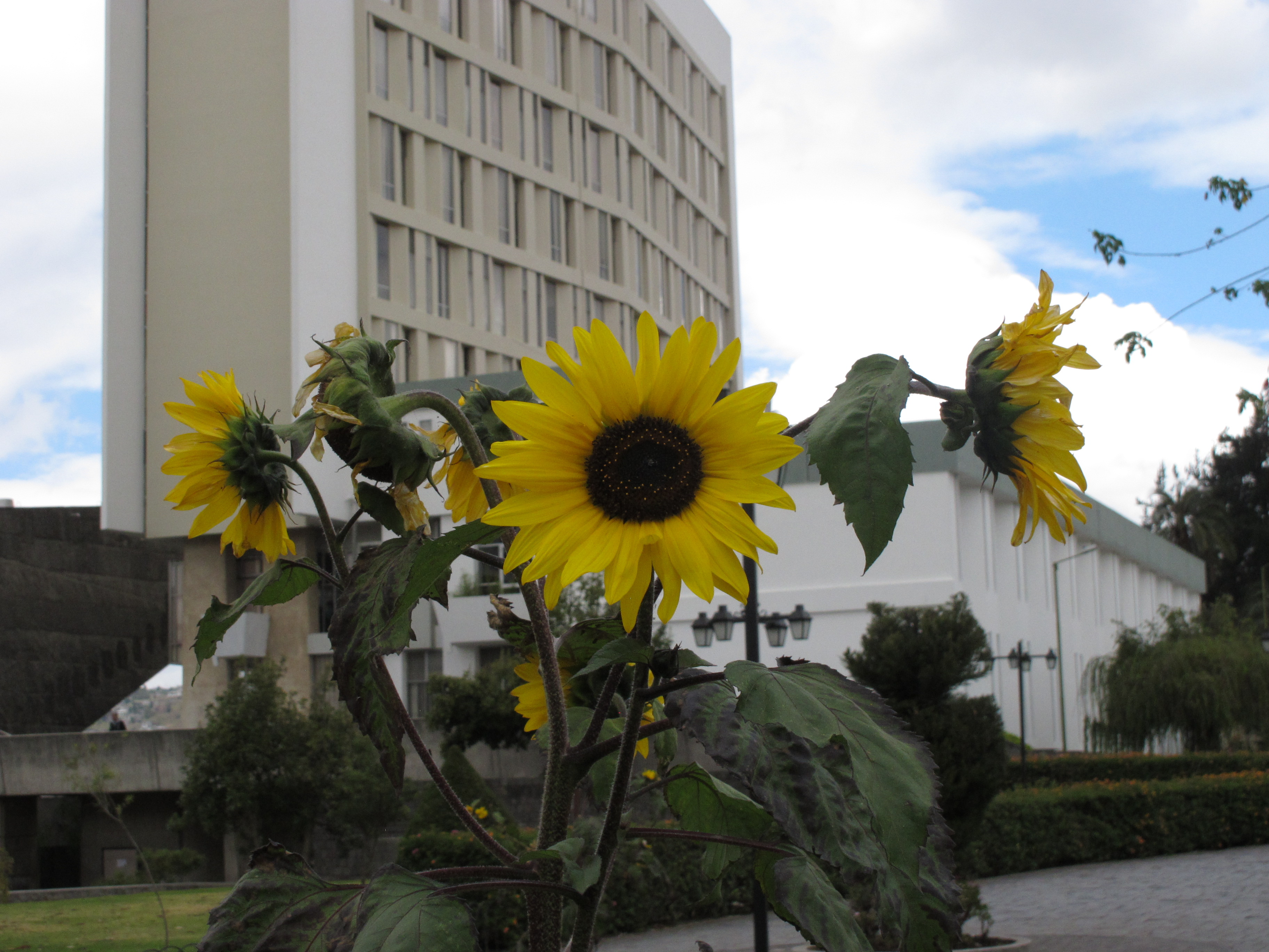 Campus Photograph, Escuela Politécnica Nacional Quito, Ecuador.